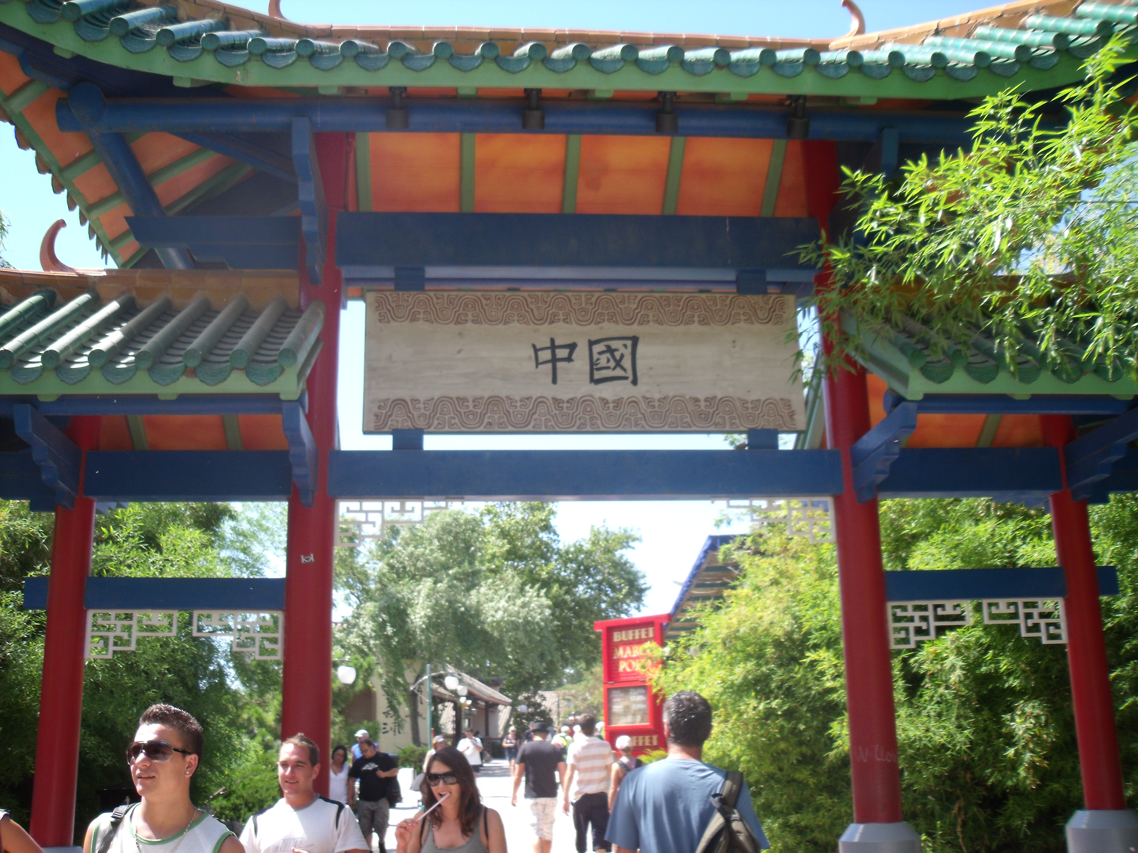 The entrance of China in PortAventura